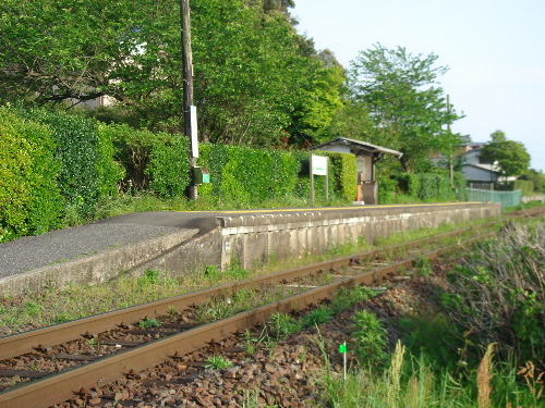 Shimogori Station on the Kururi Line, Kimitsu, Chiba, Japan